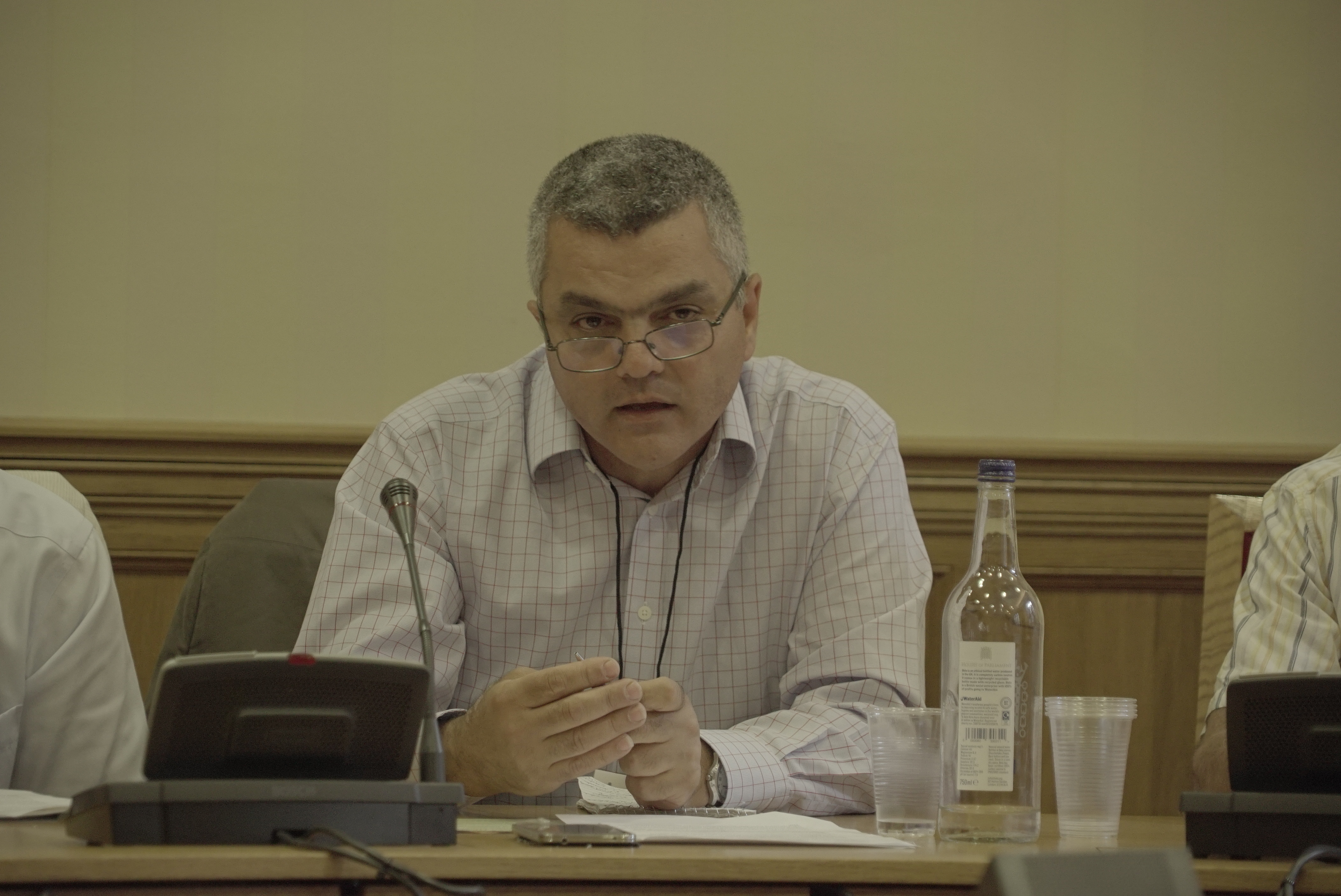 Ara Sarafian chairs UK parliamentary event on Turkish politics